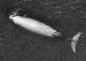 Cuvier's Beaked Whale (Ziphius cavirostris)